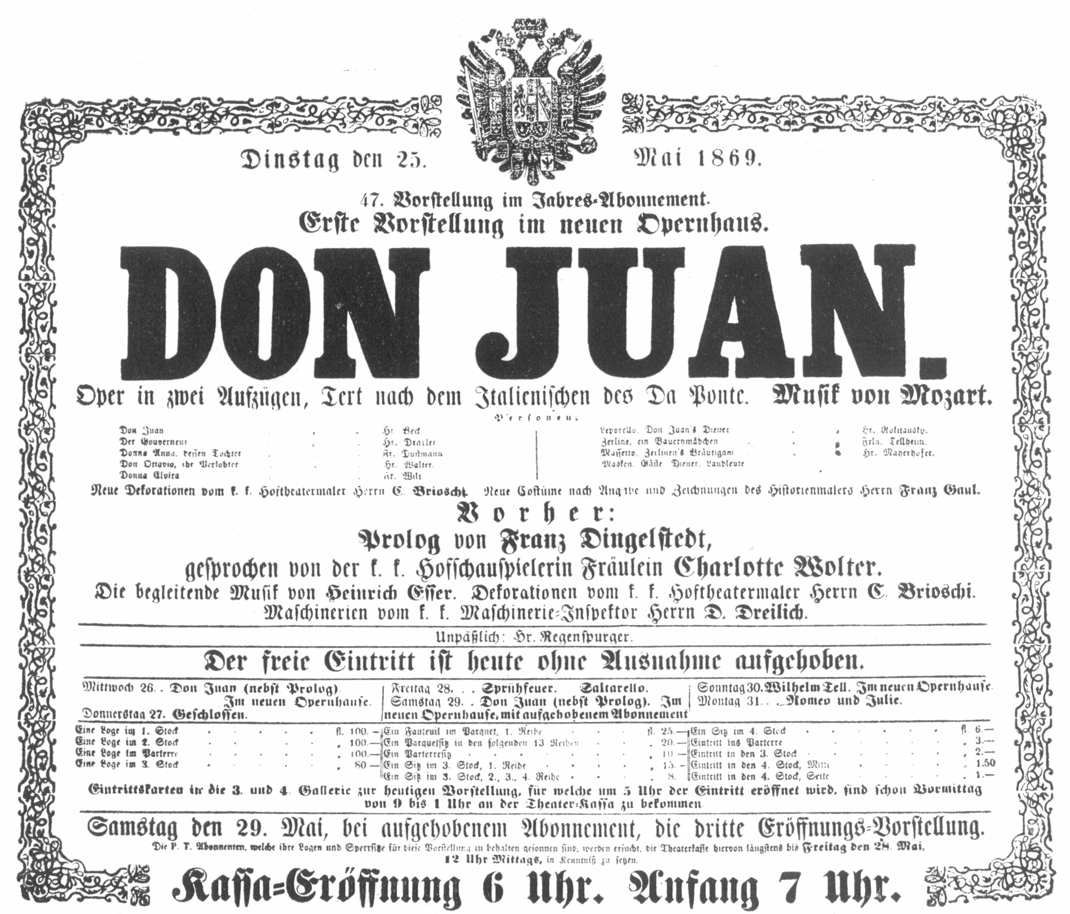 Play bill for the opening event of todays Vienna State Opera, announcing the opening performance Don Juan on May 25, 1869.